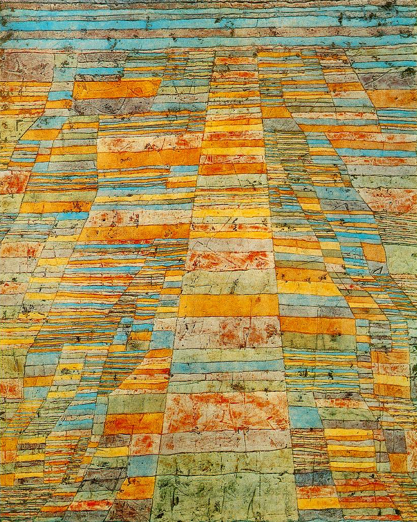 famous painting by Paul Klee